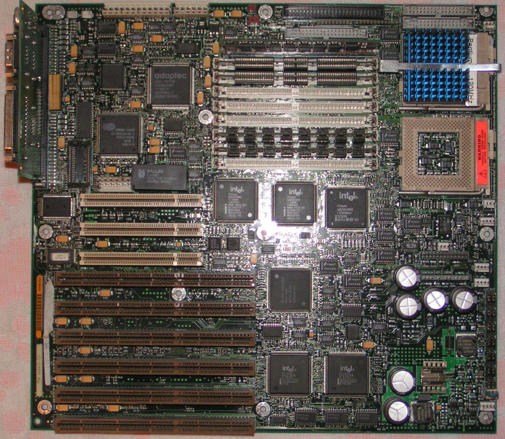 MINOLTA DIGITAL CAMERA